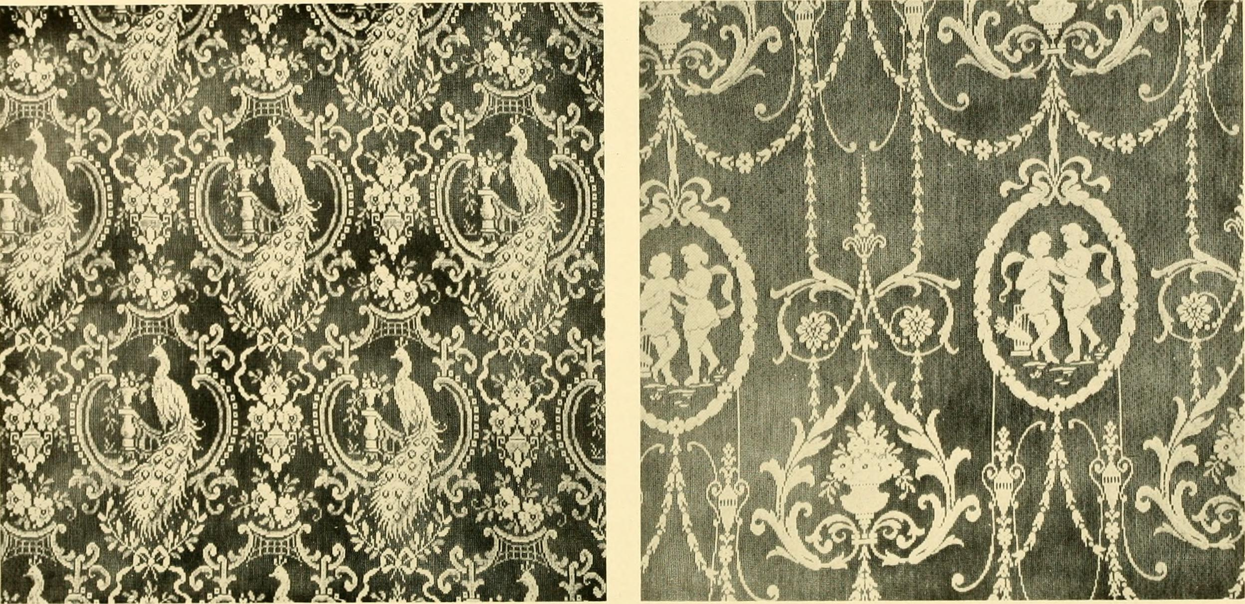 Title: Decorative textiles; an illustrated book on coverings for furniture, walls and floors, including damasks, brocades and velvets, tapestries, laces, embroideries, chintzes, cretones, drapery and furniture trimmings, wall papers, carpets and rugs, tooled and illuminated leathers Year: 1918 (1910s) Authors: Hunter, George Leland, 1867-1927 Subjects: Textile fabrics Textile design Lace and lace making Embroidery Wallpaper Leatherwork Interior decoration Tapestry Publisher: Philadelphia, London, J. B. Lippincott Company Grand Rapids, The Dean-Hicks Company Text Appearing Before Image: t Ford-ham, in Xew York City, in 188.5. VARIETIES OF LACE CURTAINS The principal varieties of lace curtains are: (1) French Lace Curtains.—A general name for thosemade with real lace mounted on machine net, or on silk, or on scrim,as well as for the few that are made entirely of real lace. (2) XoTTiNGHAM Lace Curtains.—A general name for thosewoven in one piece on the lace curtain machine, usually with anembroidered buttonhole edging added after weaving and sometimeswith an appli(jue cord, as in the once popular corded arabians. (3) Swiss Lace Curtains.—A general name for those madeby embroidering designs with the bonnaz sewing machine on machinenet. The principal varieties are tambour, brussels, applique and irishpoint. The tambours are so called from the embroidery frame thatformerly held the net while the embroidery was put in by hand withthe crochet hook. The bnts.sels have the held of figures filled in withbonnaz stitch of finer yarn (Plate III). The appliques have thin 101 Text Appearing After Image: — oi